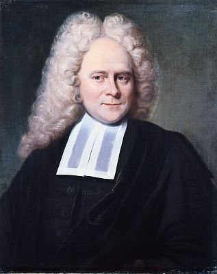 Franciscus Burman II (1671-1719), theology professor from the Dutch Republic.